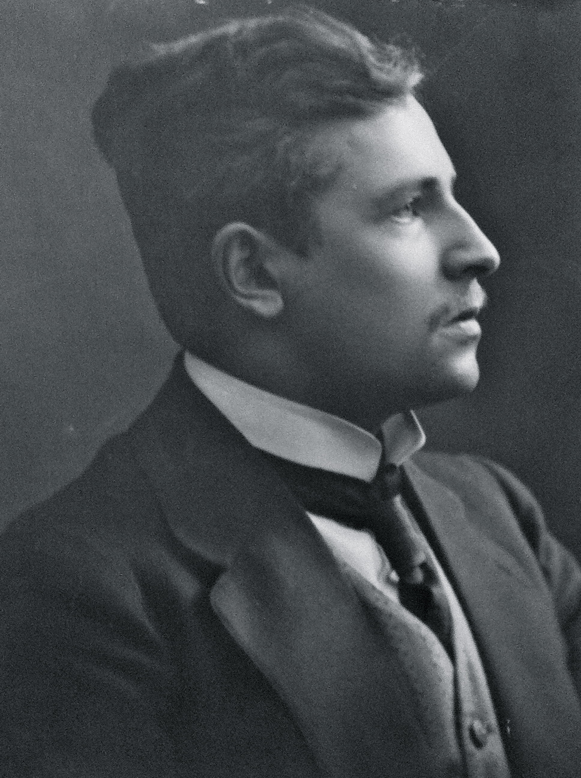 Photographic portrait of Elias Kiianmies (until 1934 Elias Kyander)